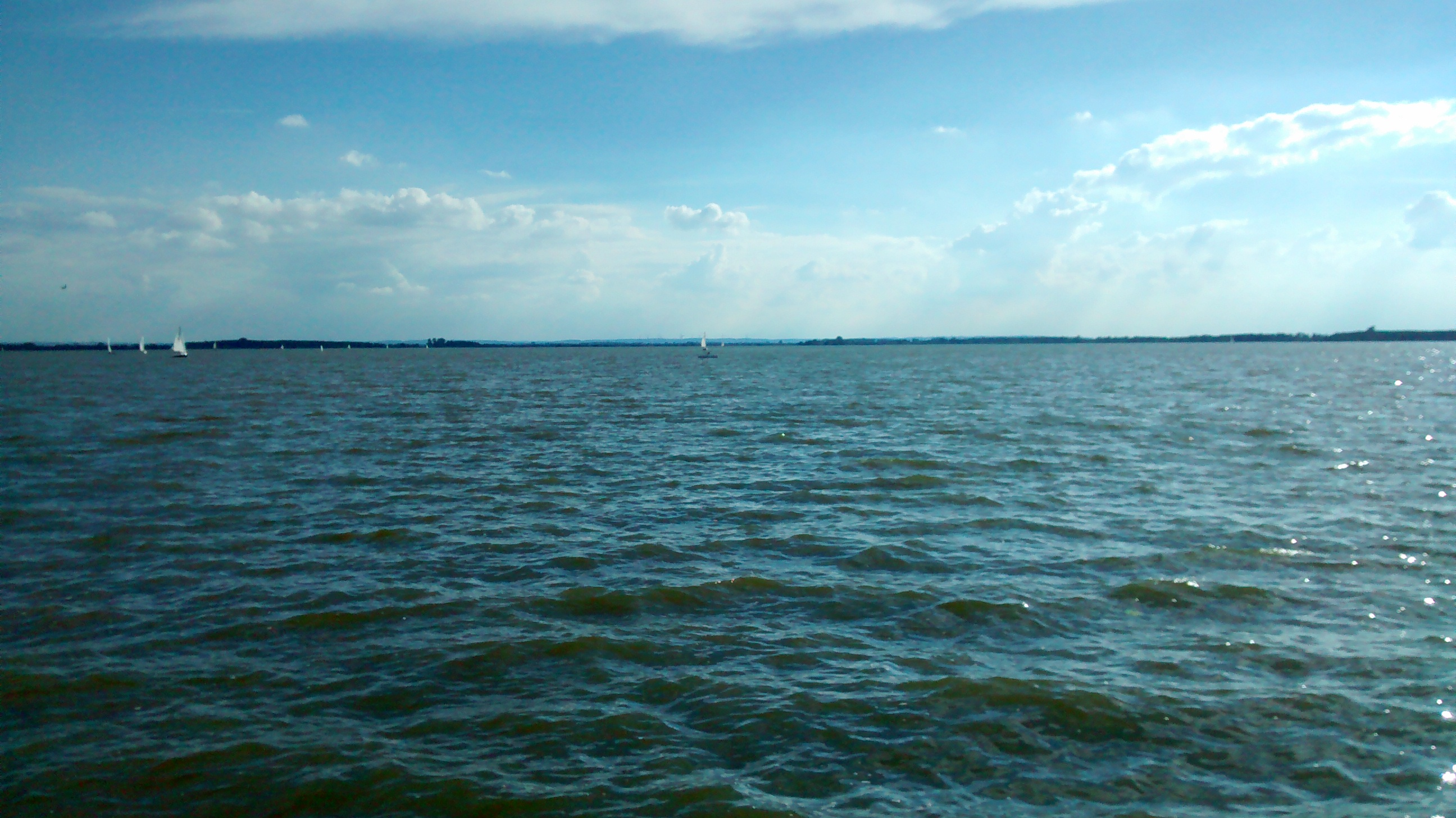 View on the Dümmer Lake.